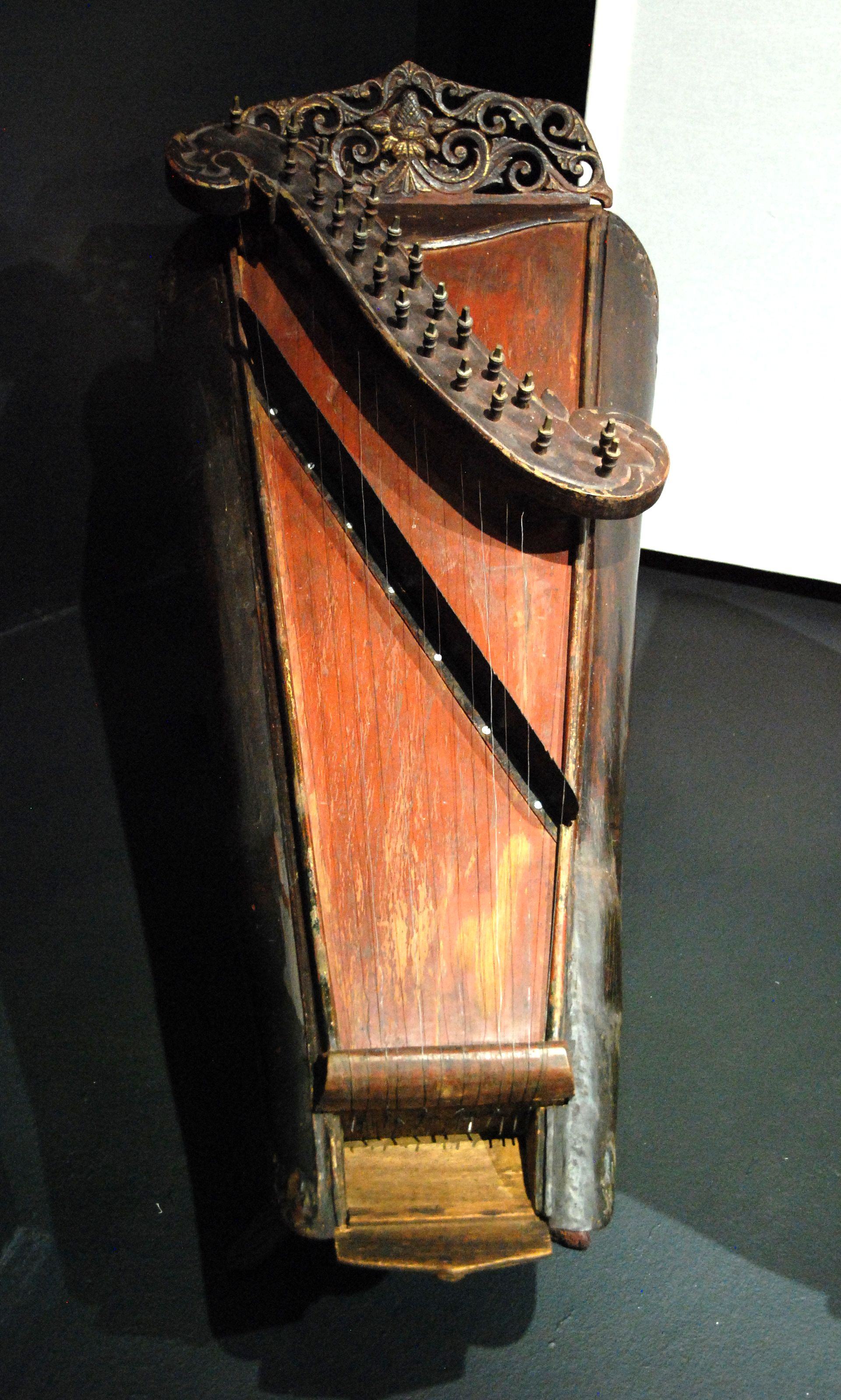 Celempung, beginning of 20th century